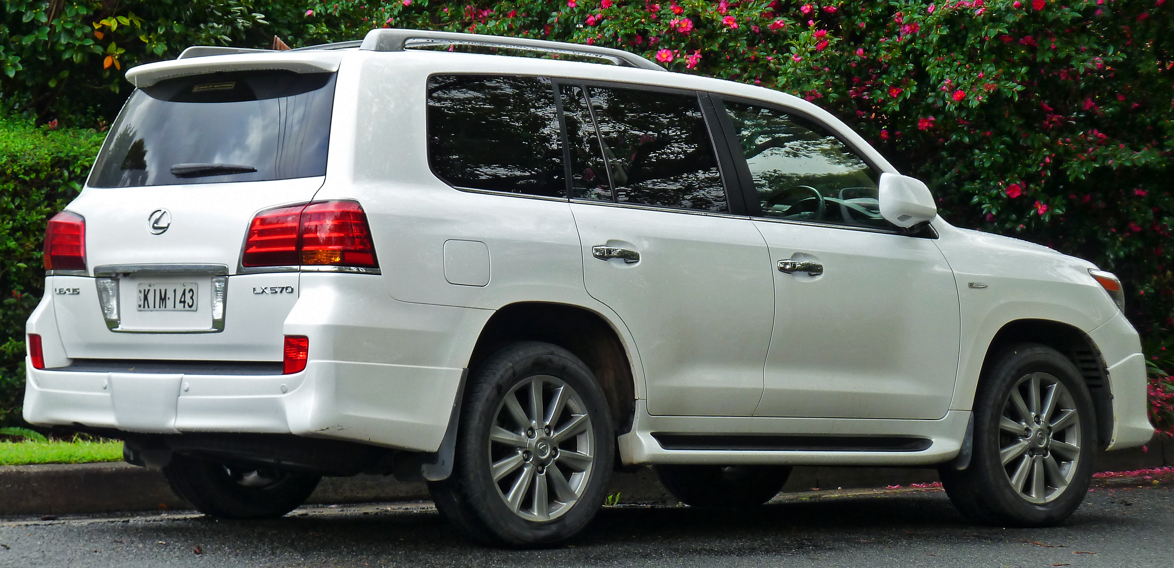 2008–2011 Lexus LX 570 (URJ201R) Sports Luxury wagon. Photographed in Lindfield, New South Wales, Australia.